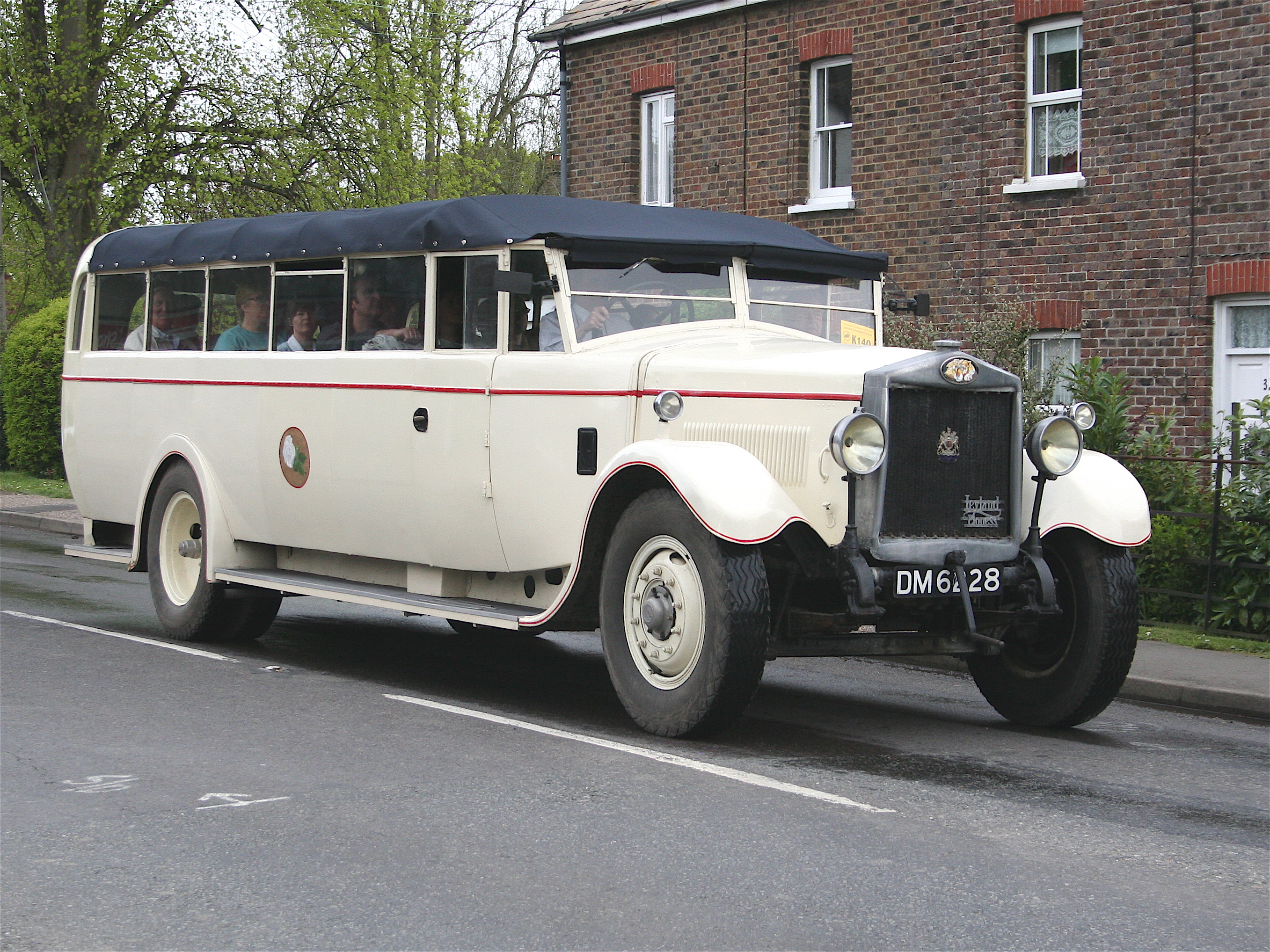 A privately owned 1929 (reg. DM 6228) Leyland Lioness LTB1 charabanc with ash framed 26-seat Burlingham coachwork, pictured in its original identity as a White Rose Motor Services vehicle. It has a Leyland 6.1L petrol engine and 4 speed manual gearbox. Having also seen service in Jersey, it was restored by Leyland Motors to celebrate their 80th anniversary.